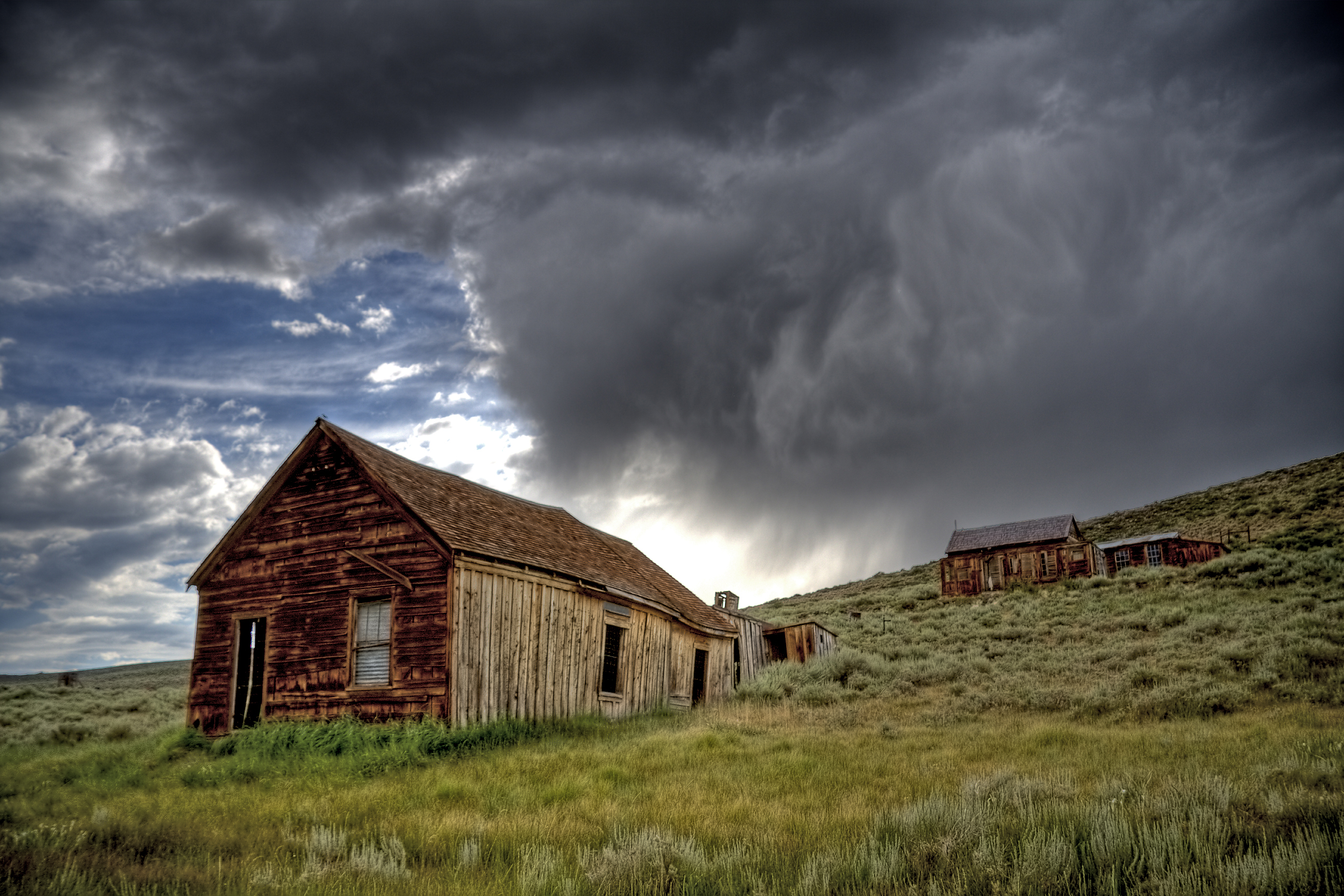 Taken on a stormy day at the Bodie Historic State Park, California. HDR photograph.